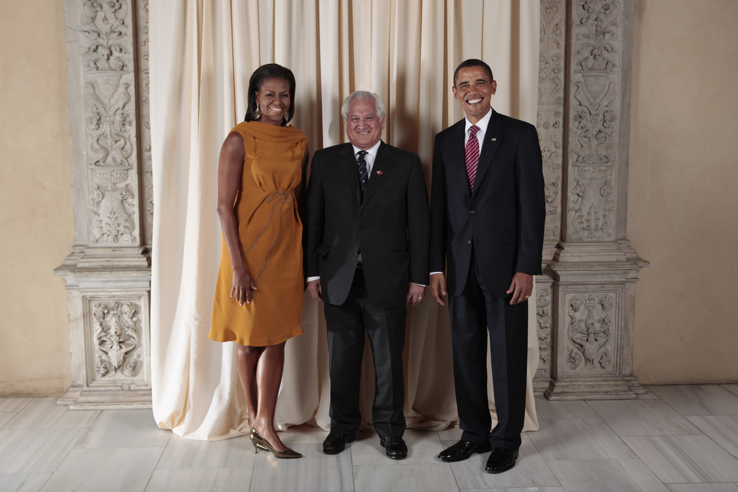 President Barack Obama and First Lady Michelle Obama pose for a photo during a reception at the Metropolitan Museum in New York with Feleti Sevele, Prime Minister of Tonga.